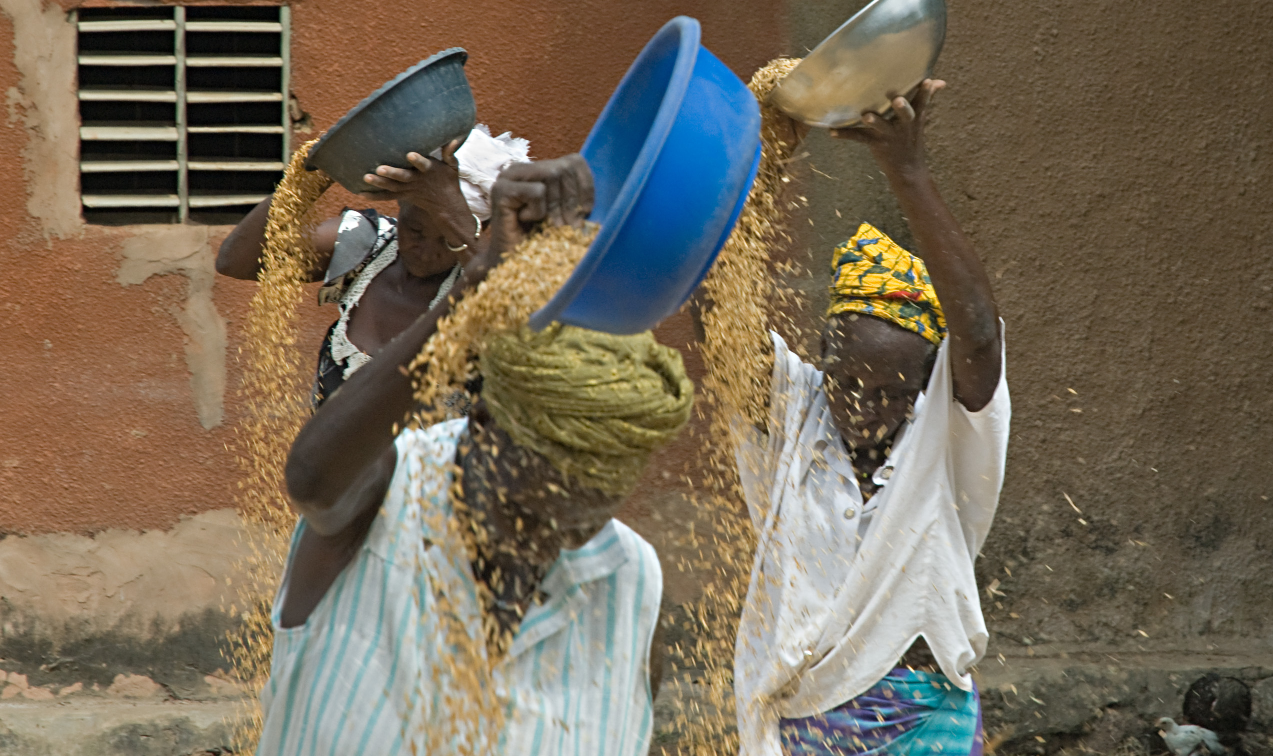 Women winnowing rice (Bama, Houet Province, Hauts-Bassins Region, Burkina Faso November 2014)